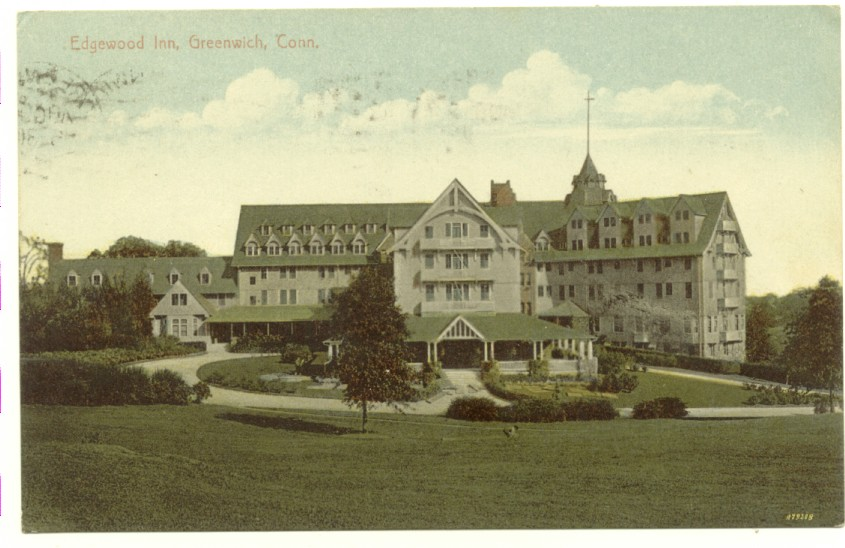 Postcard: Edgewood Inn, Greenwich, Connecticut, postmarked 1911